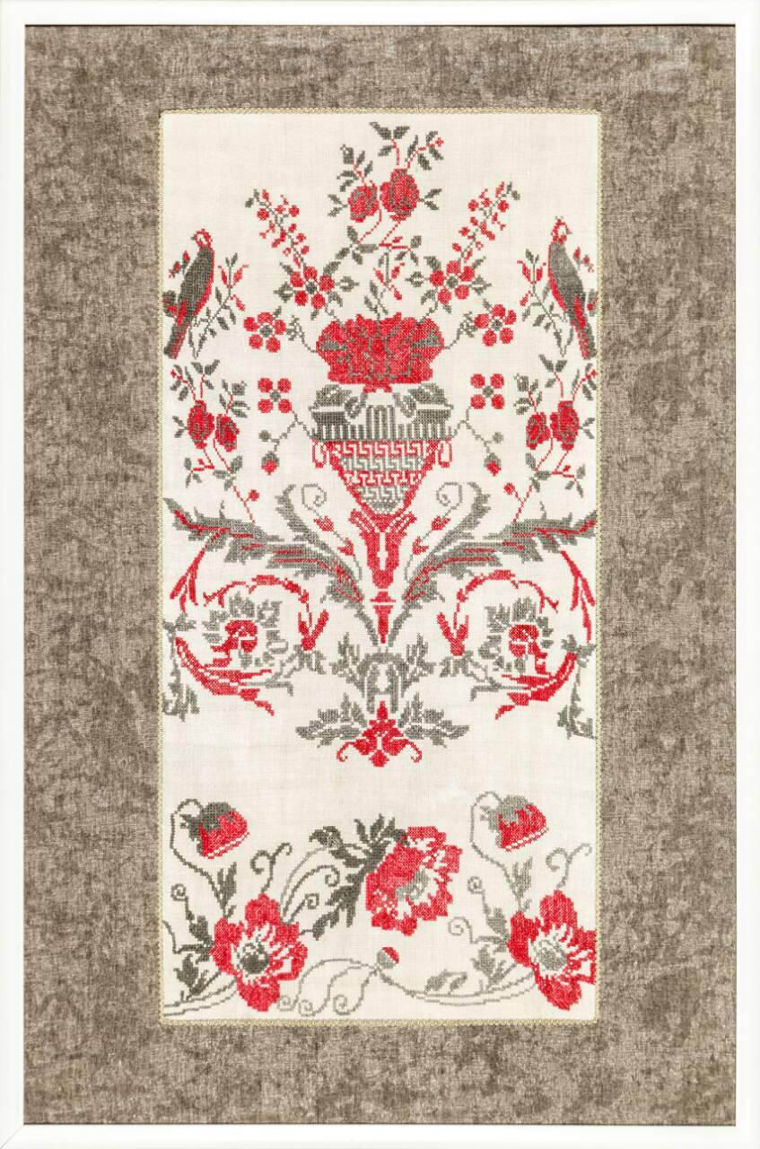 The restored Ukrainian hafted towel